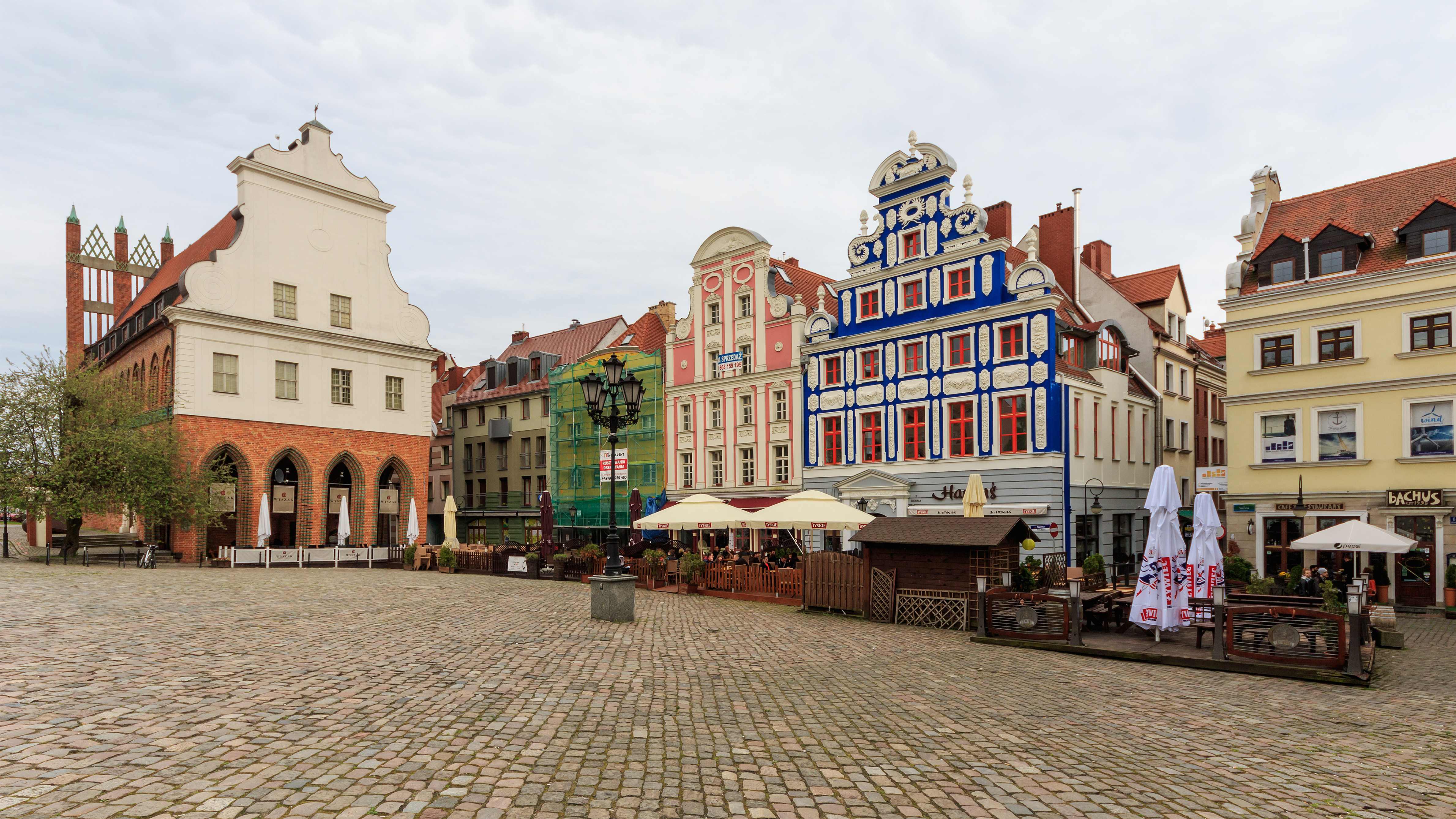 Rynek Sienny (Hay Market Square) in Szczecin (Poland)